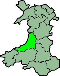 one of the historic counties of Wales